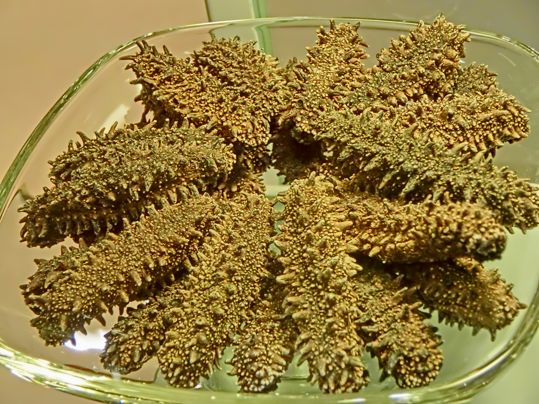 Shop in The Gateway, Tsim Sha Tsui, Hong Kong